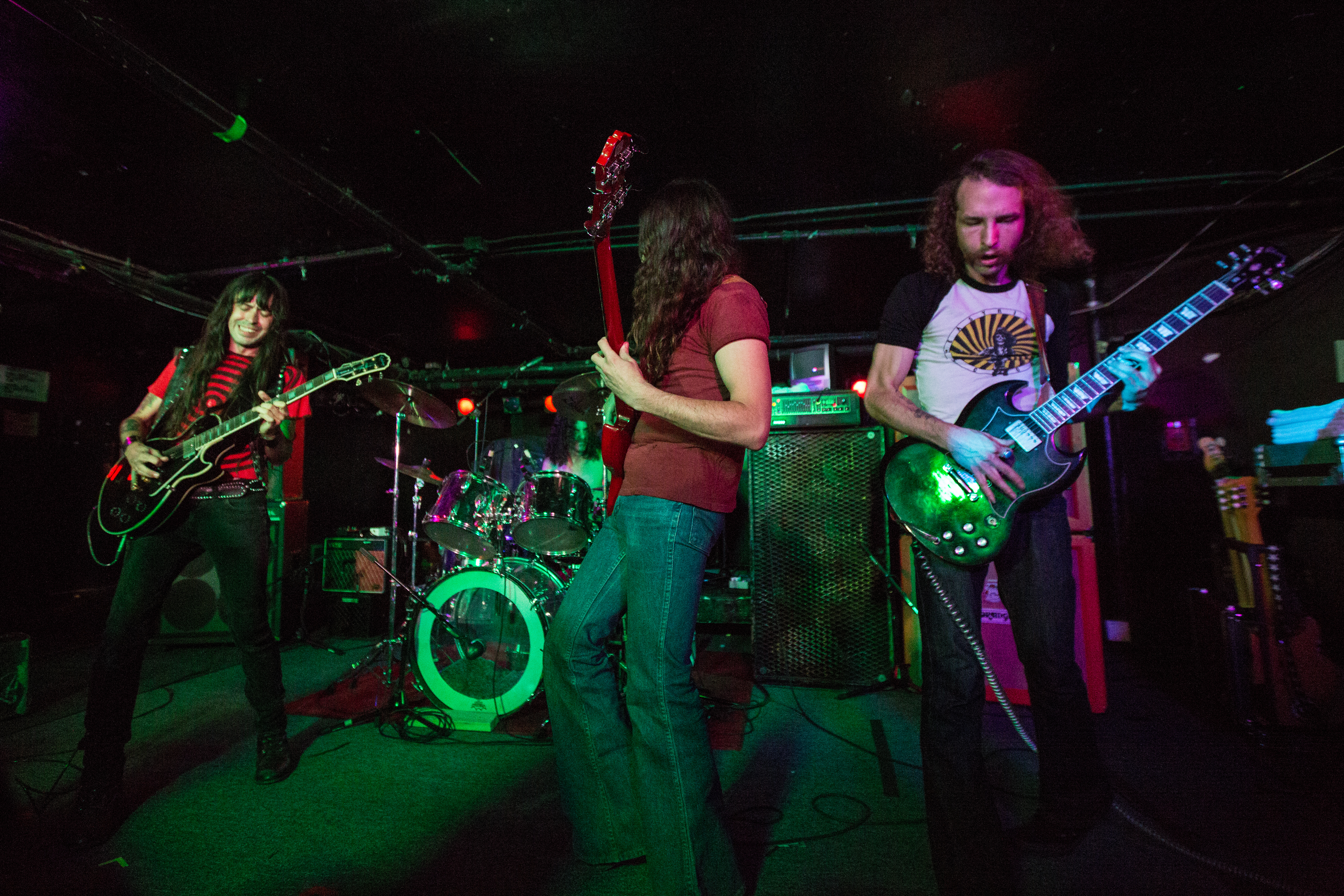 CAMBRIDGE, MA - SEPTEMBER 25: Uncle Acid And The Deadbeats play a sold-out room on their first US tour, with support from Danava. Shot at The Middle East Restaurant and Nightclub on Thursday, September 25, 2014.